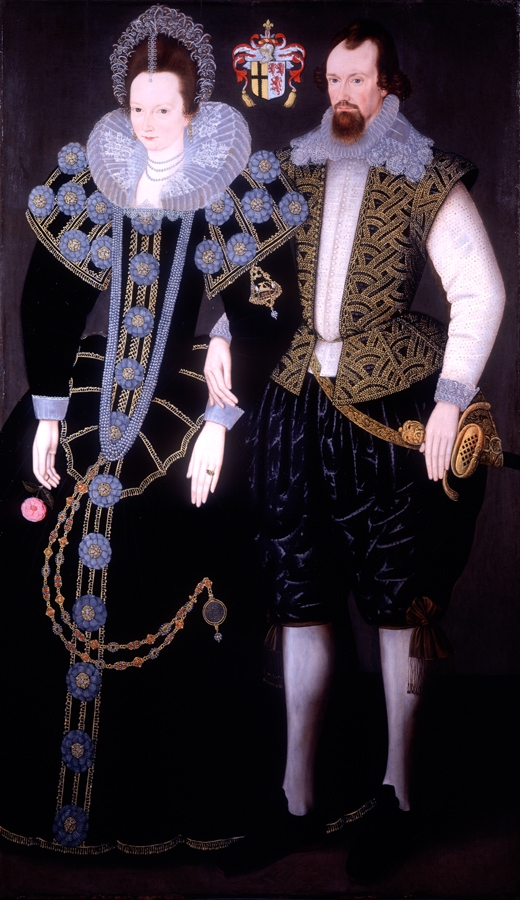 Sir Reginald Mohun, 1st Baronet (c1564–1639) of Boconnoc, MP, and his 3rd wife Dorothy Chudleigh, daughter of John Chudleigh (1565-1589), MP, of Ashton, Devon. The arms show Mohun impaling Chudleigh: Ermine, three lions salient gules. [1]